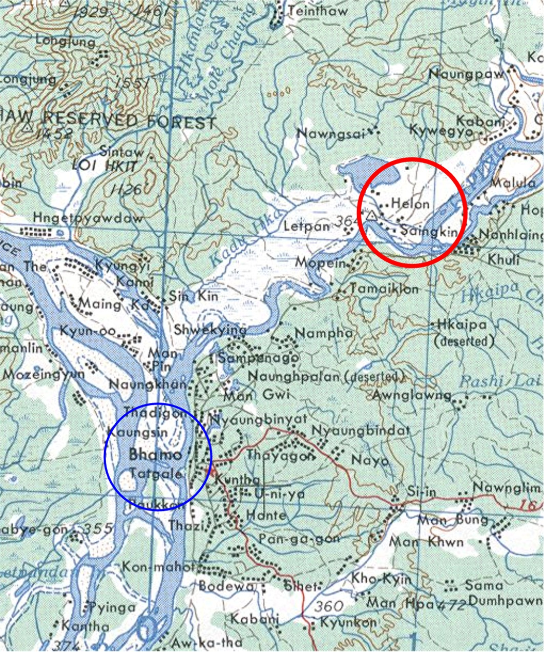 Original Name [Including Diacritics]: HELON. Geographical Location: Momauk, Kachin, Burma, Asia. Geographical Coordinates: Lat. 24° 20' 0"N X Long. 97° 17' 0"E. Altitude 102 Metres [337 Feet]. Source: Map BHAMO 1: 250 000. Reference: Series U542, Sheet NG 47.13, Edition 1-AMS [First Printing 4-58]. United States Army Map Service.